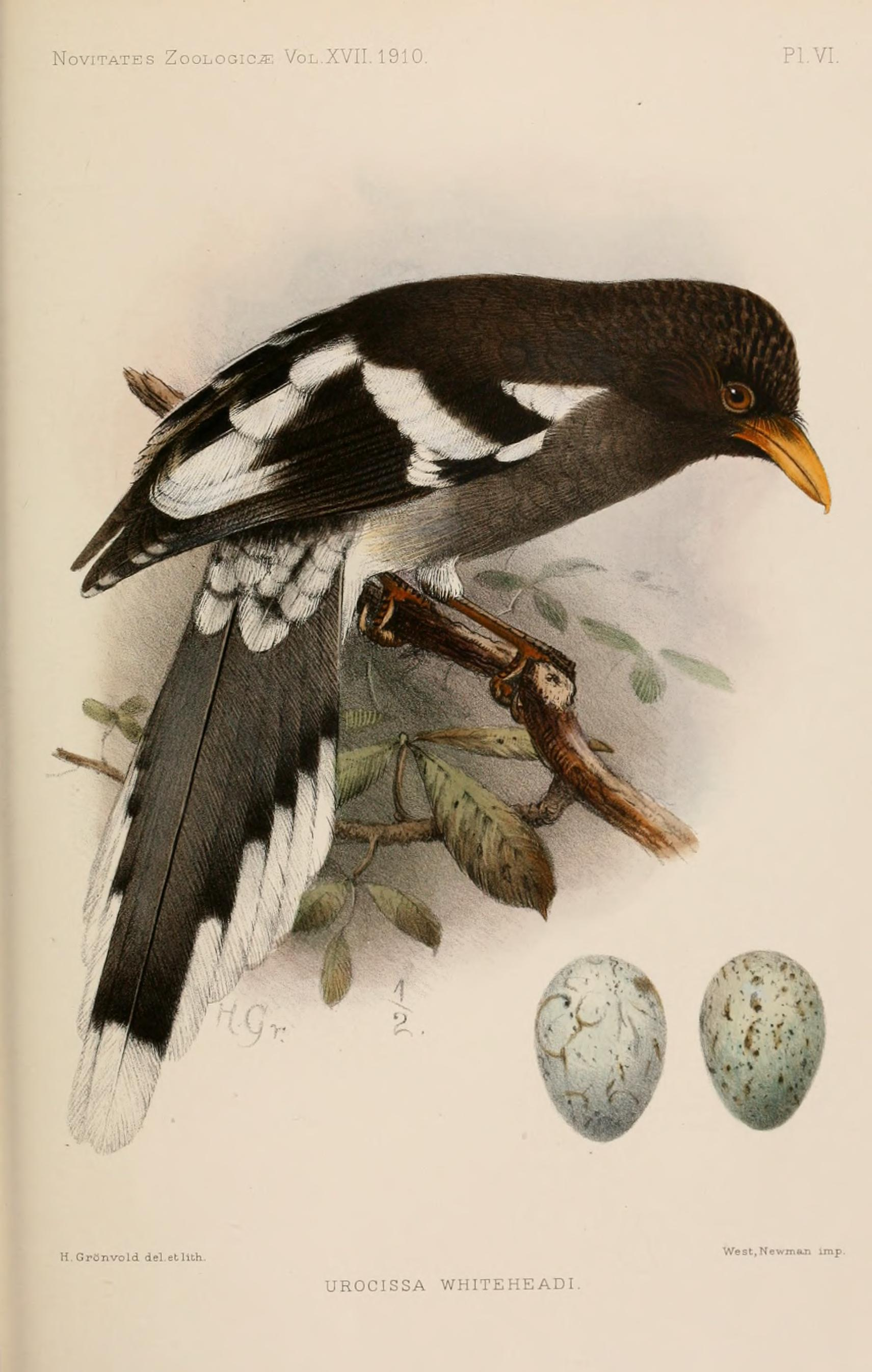 White-winged Magpie Urocissa whiteheadi specimen details